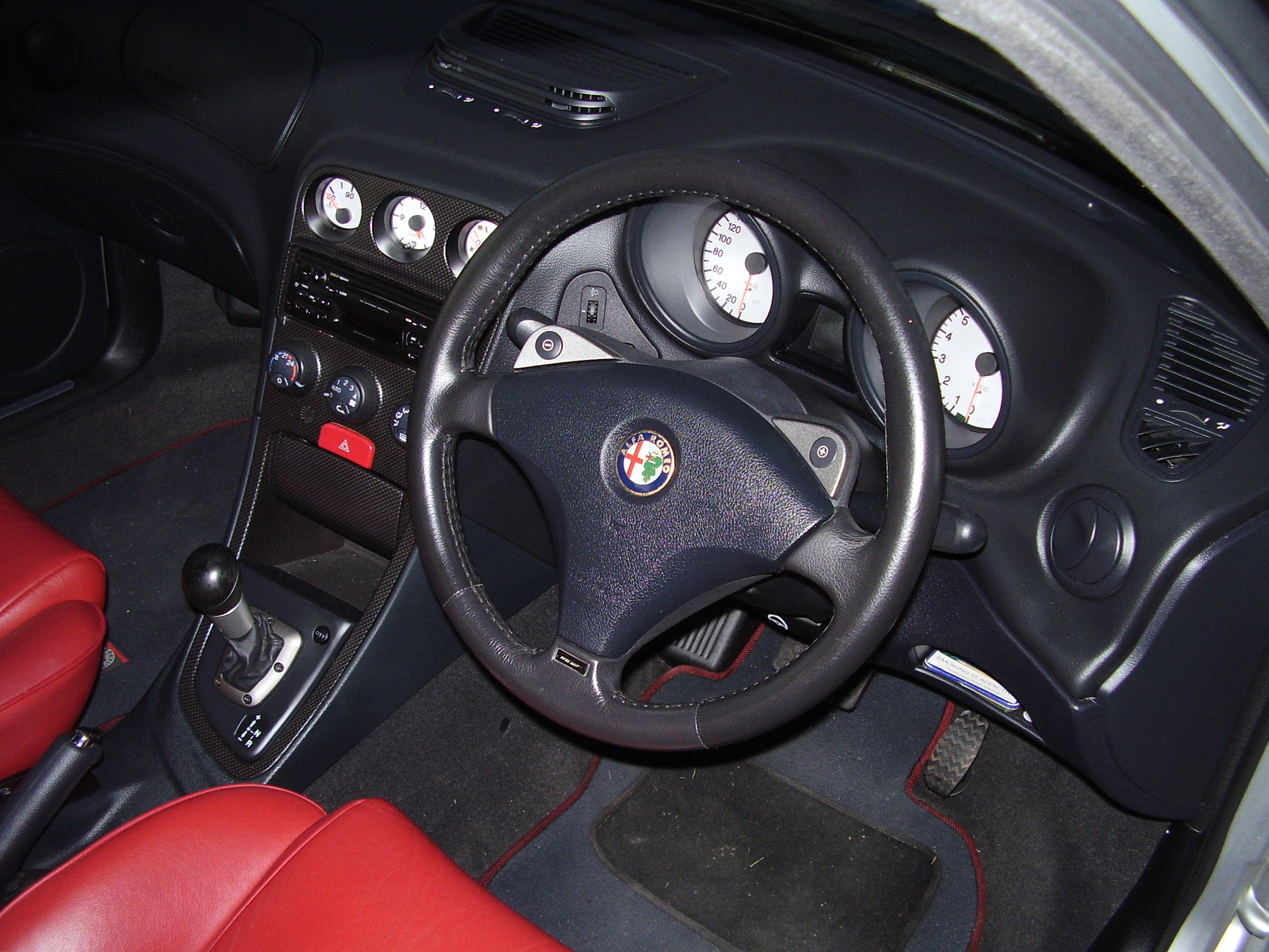 Alfa Romeo 156 Selespead